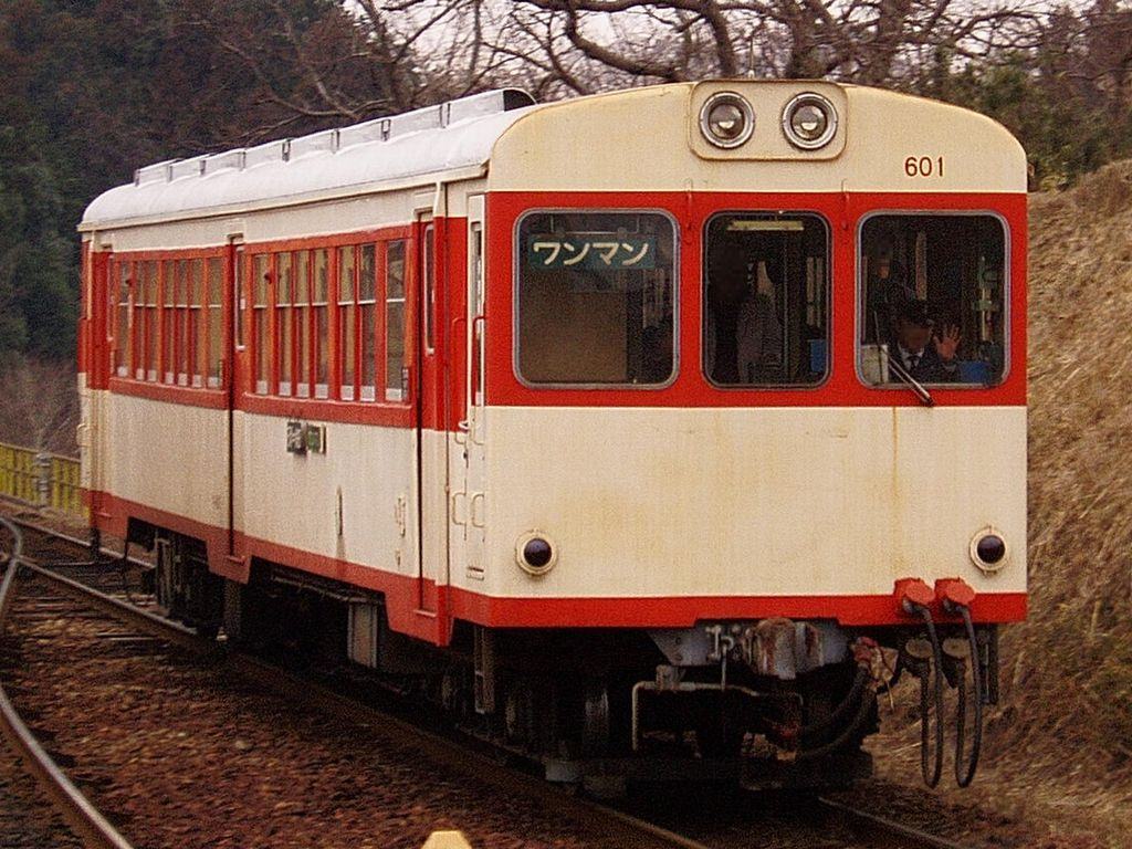 Kashima Railway DMU type Kiha600 No.601